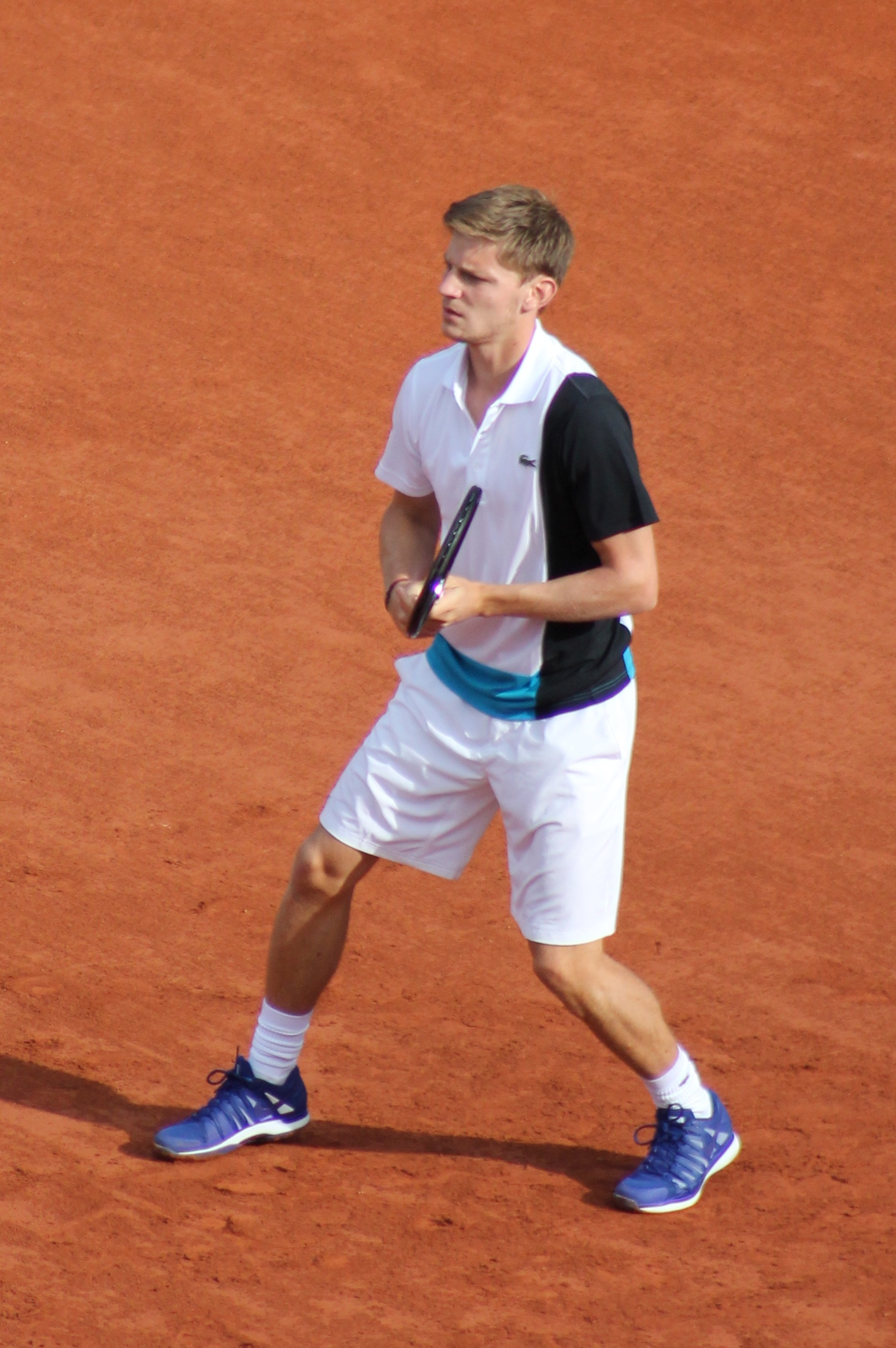 David Goffin